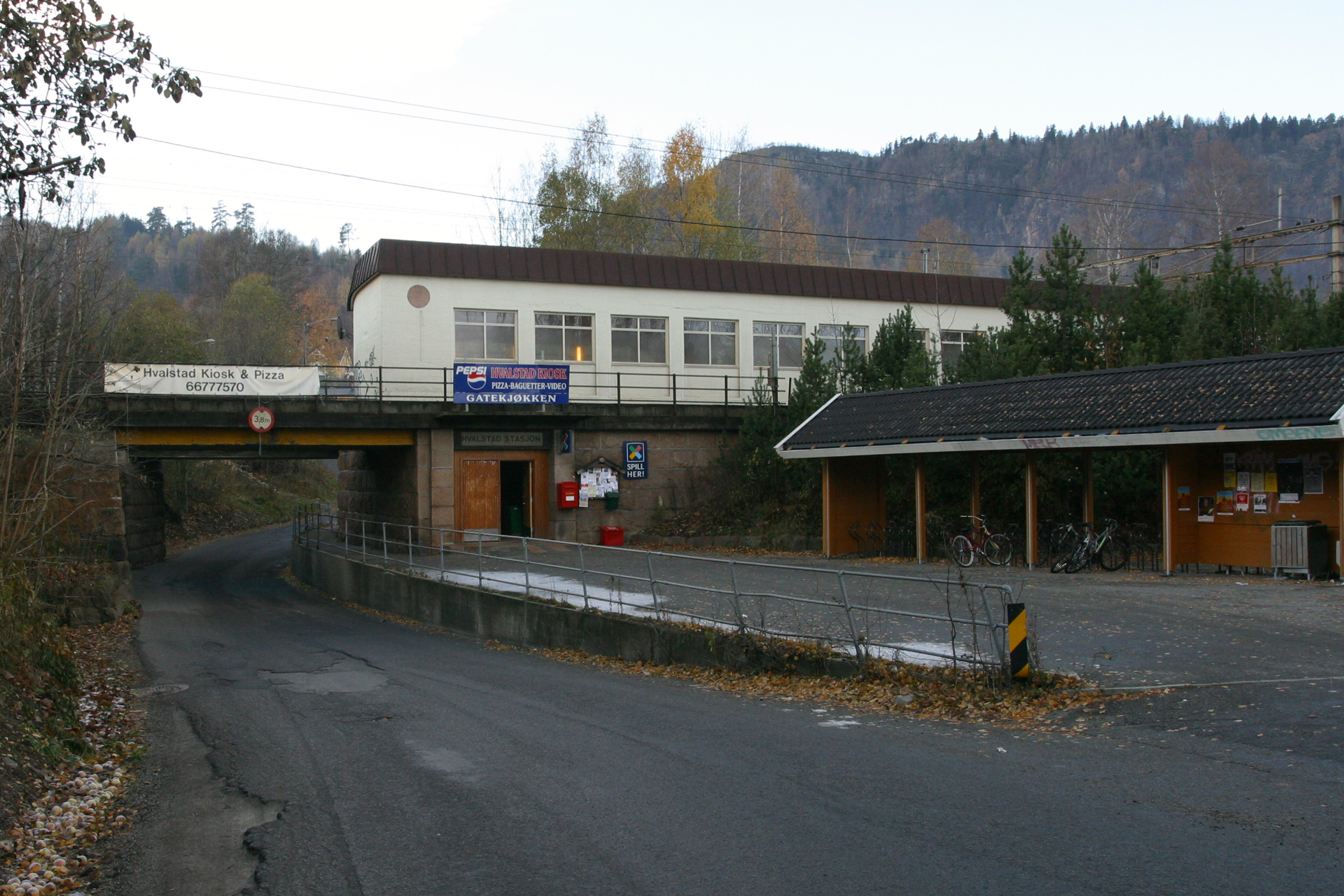 Picture of Hvalstad Railway Station (Norway)